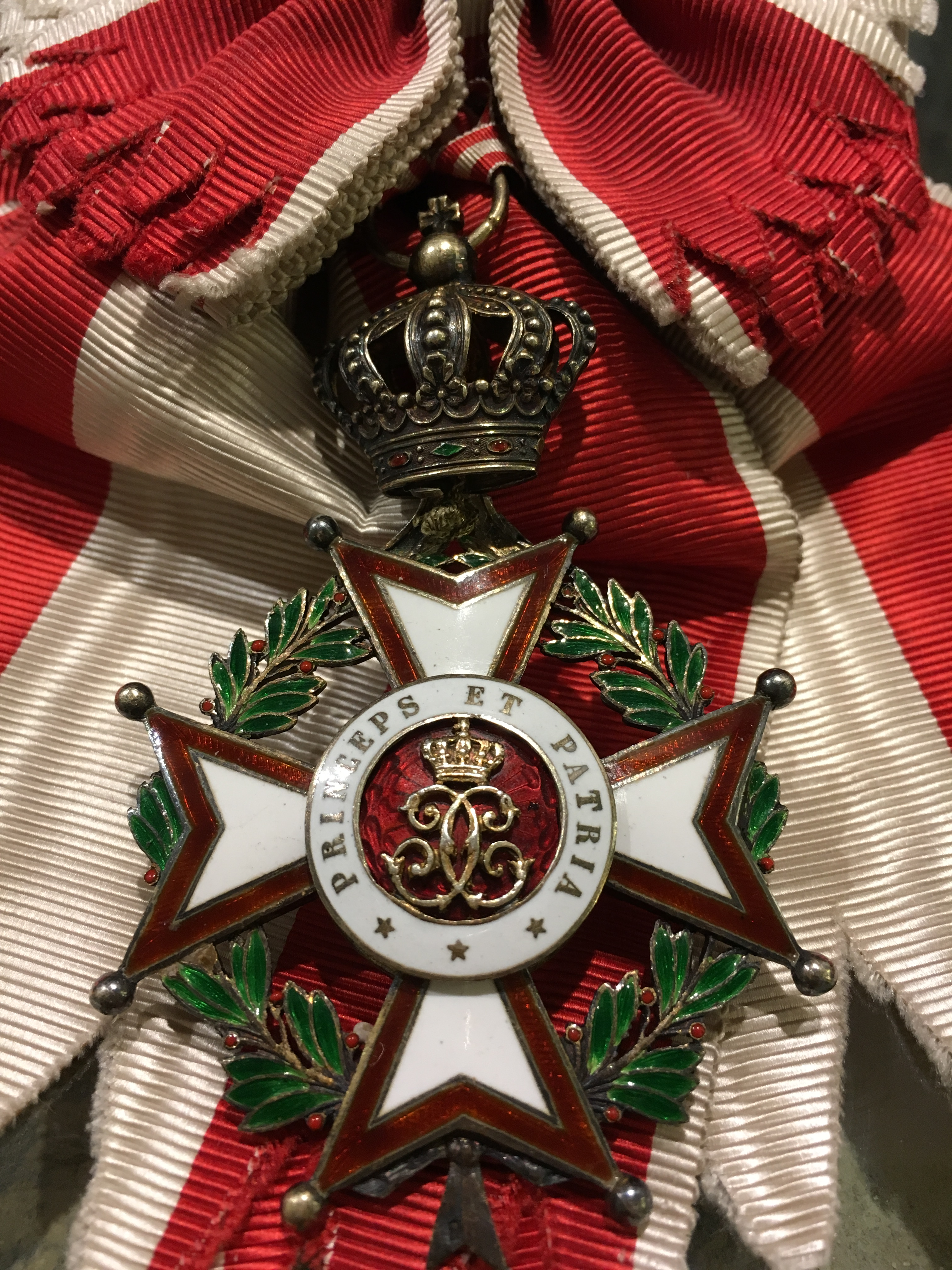 Grand Cross sash and sash badge of the Order of Saint-Charles, Principality of Monaco. Private collection.